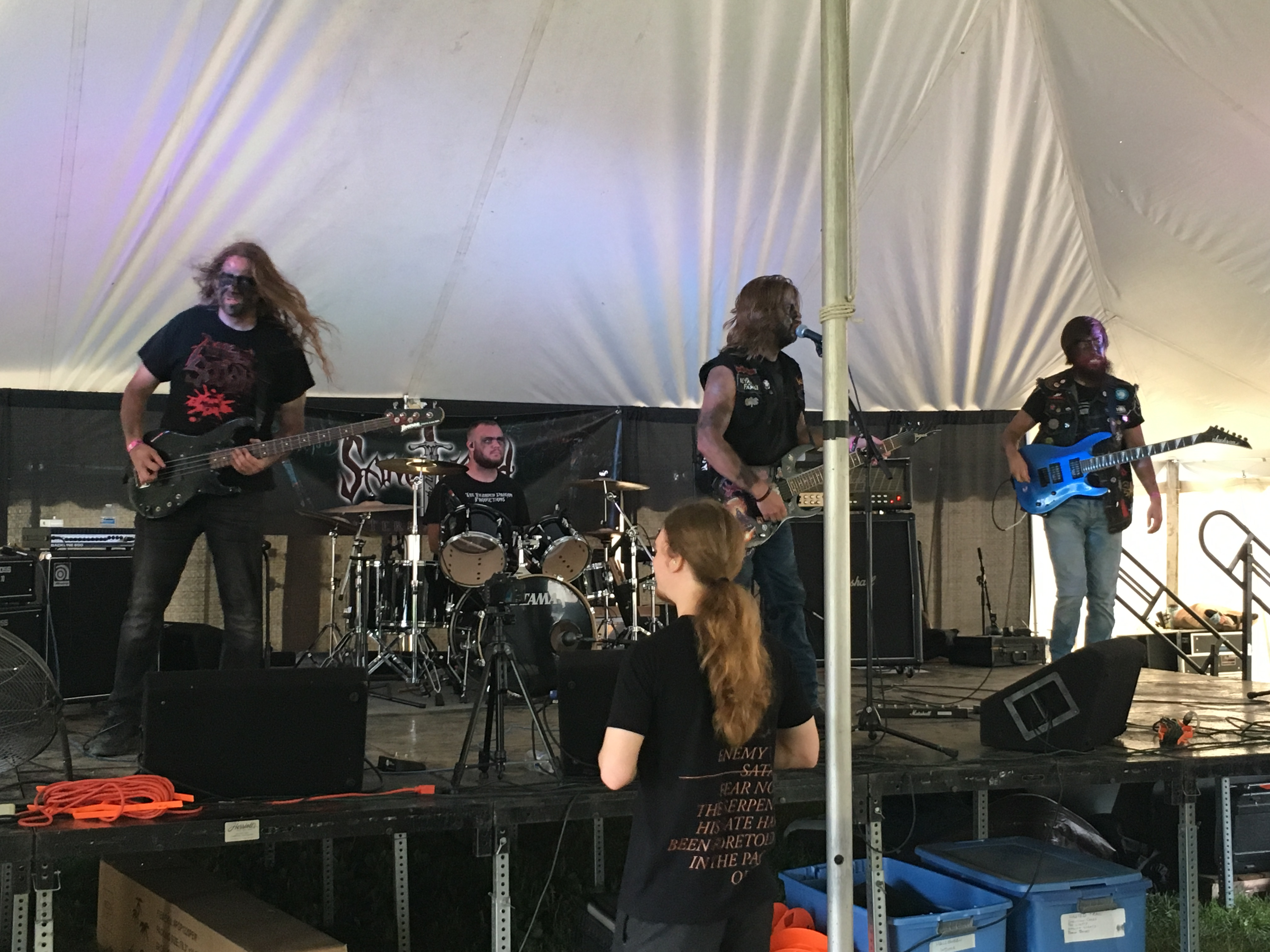 Symphony of Heaven performing at Audiofeed Festival 2019 on the Sanctuary Stage.